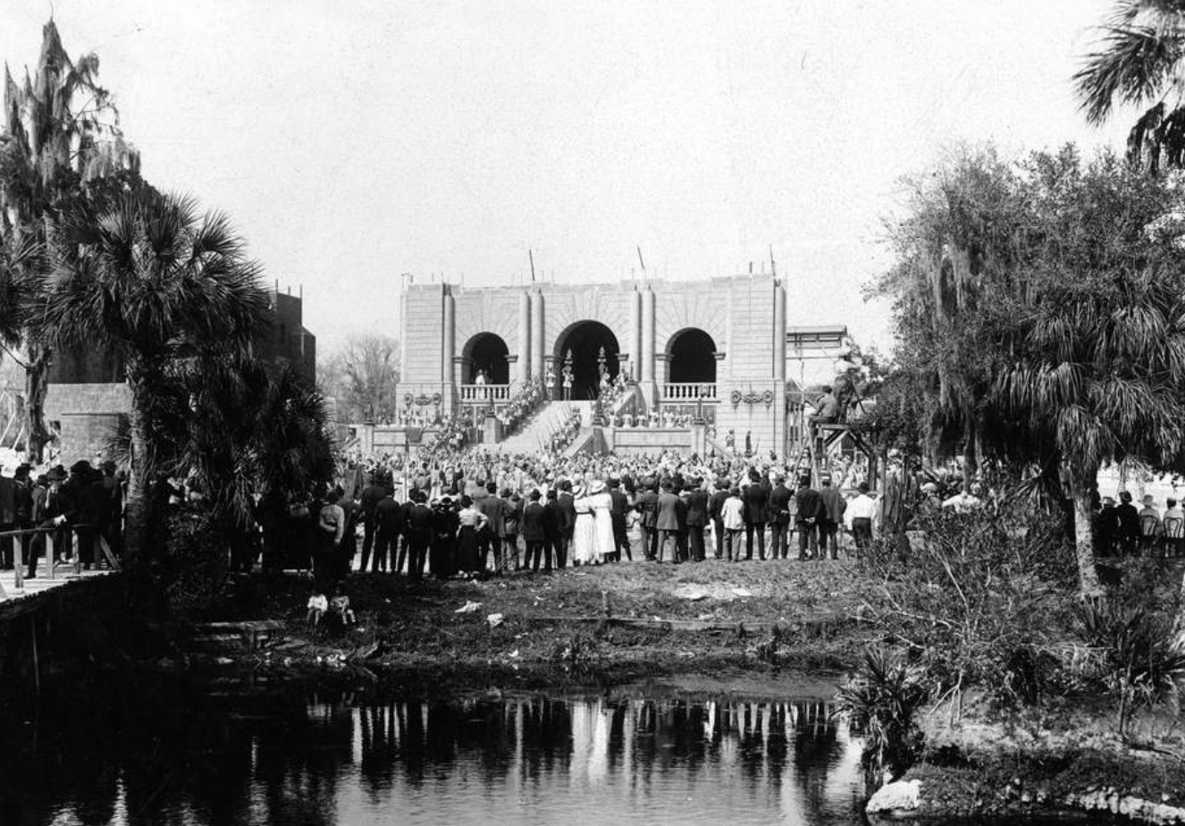 Filming of Birth of a Race in January, 1918, in Sulphur Springs (Tampa), Florida